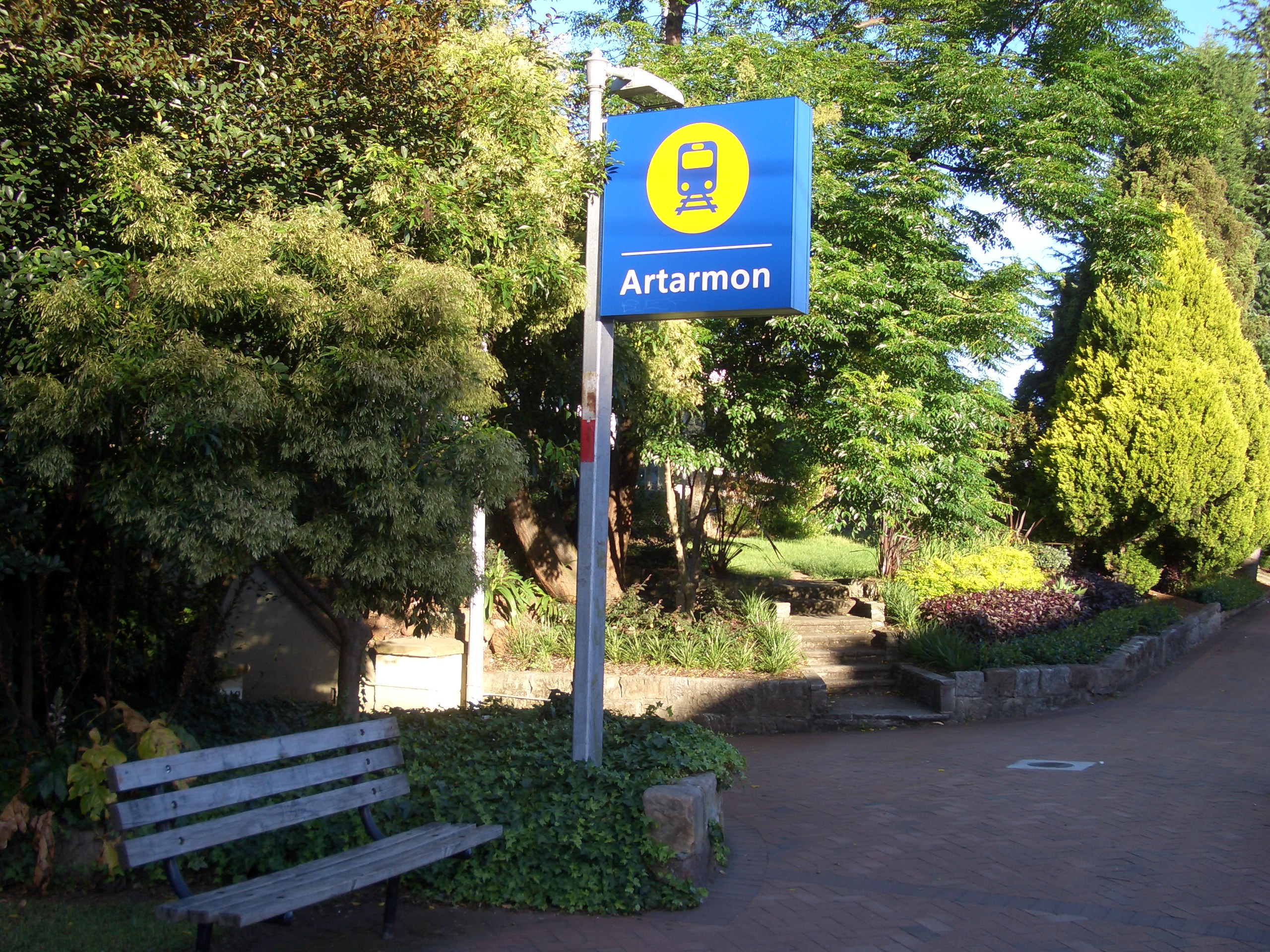 Artarmon railway station entrance